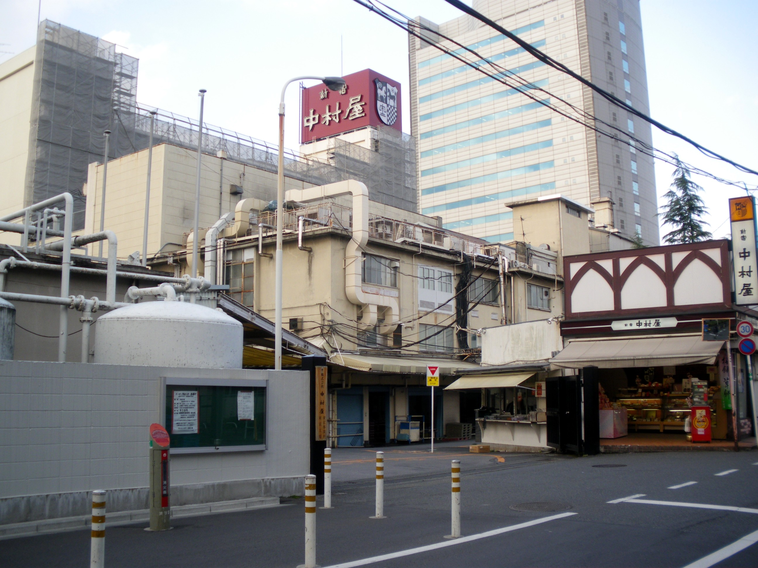 A photo of Shinjuku Nakamuraya chuo business office(Tokyo factory),Sasazuka,Shibuya-ku,Tokyo.